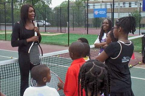 Venus Williams teaches a clinic for some of the children at the Southeast Tennis and Learning Center in Washington, DC, April 28, 2011